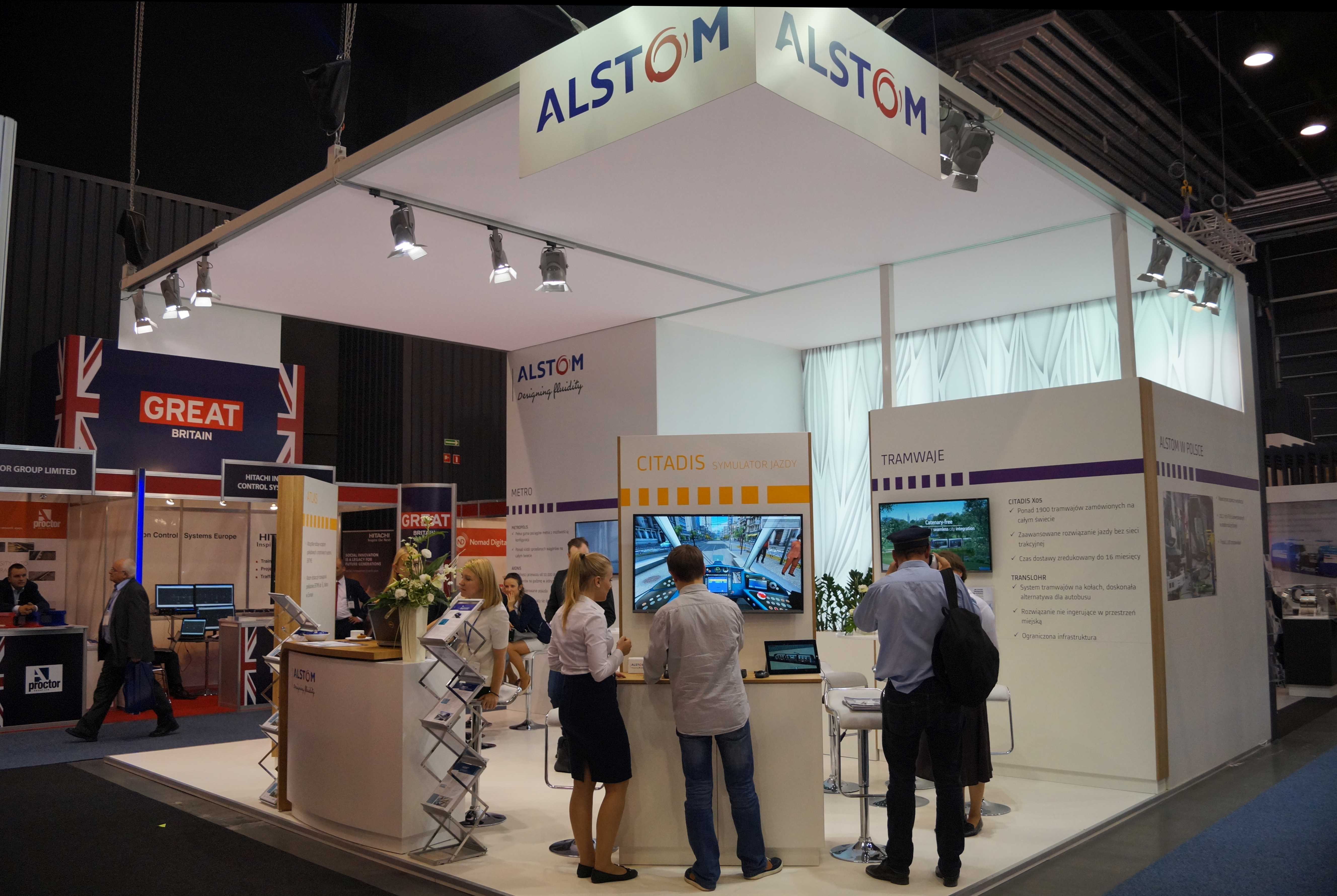 The making of this document was supported by Wikimedia Polska Association, within Wikigrant no. WG 2015-34. Stoisko Alstomu na Targach Trako 2015